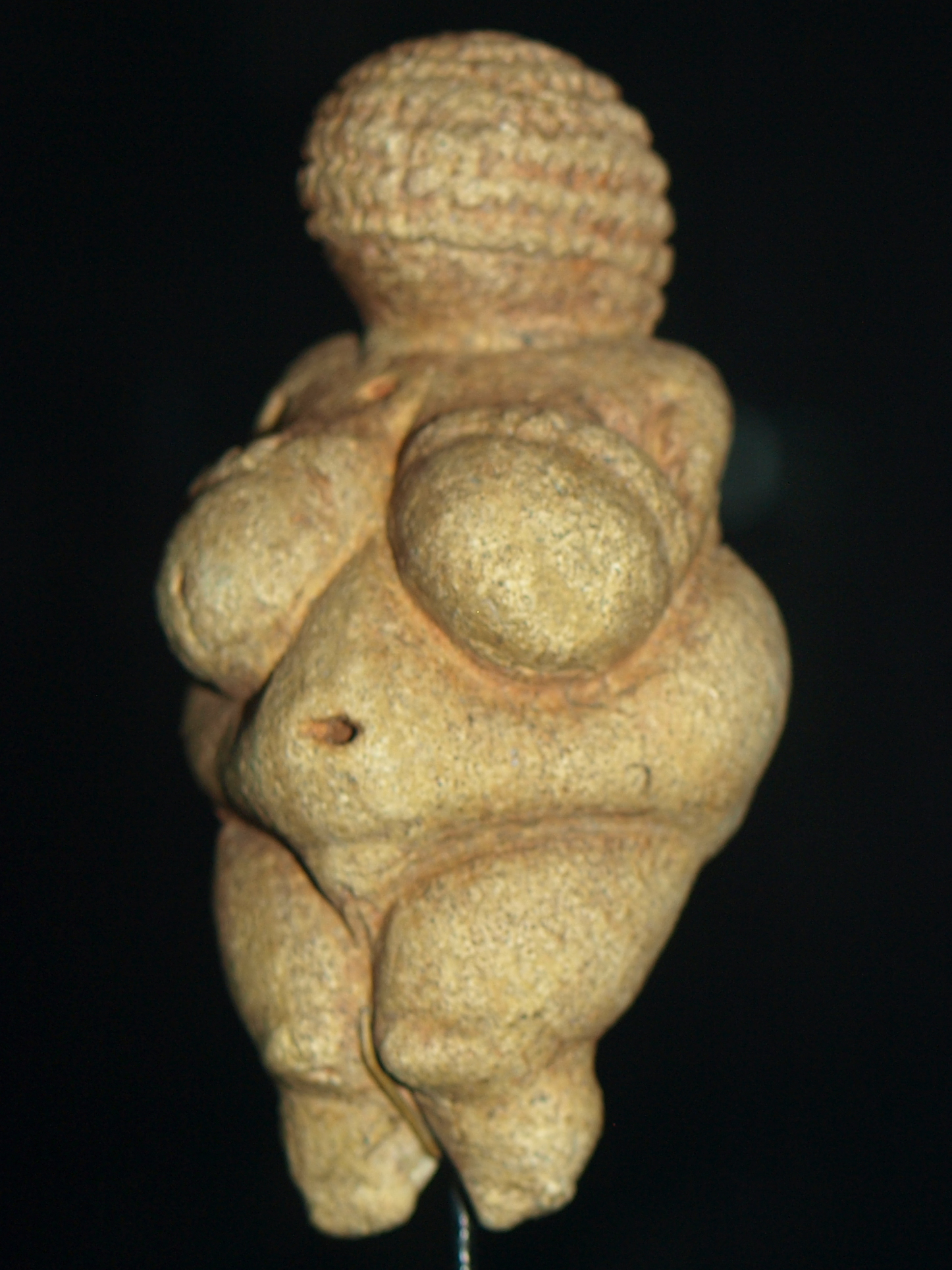 Venus of Willendorf, on display at the Naturhistorisches Museum, Vienna.